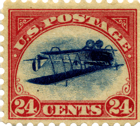 The Smithsonian's 1918 Inverted Jenny